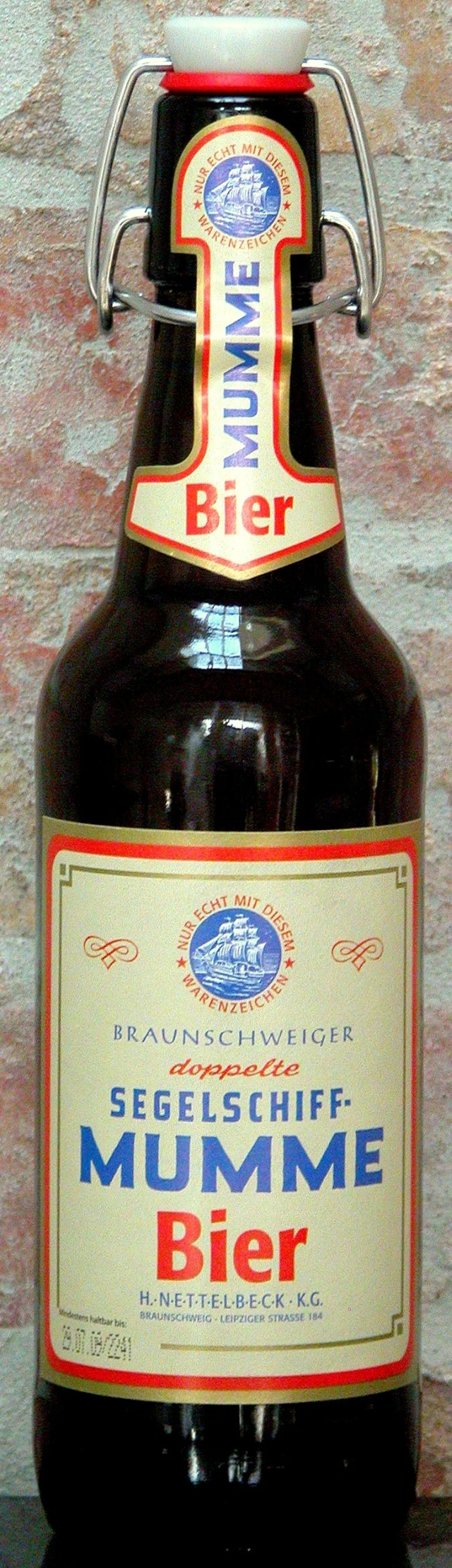 Braunschweiger Mumme: A bottle of “Braunschweiger doppelte Segelschiff-Mumme”. The alcohol-containing version, available again as of 2008.